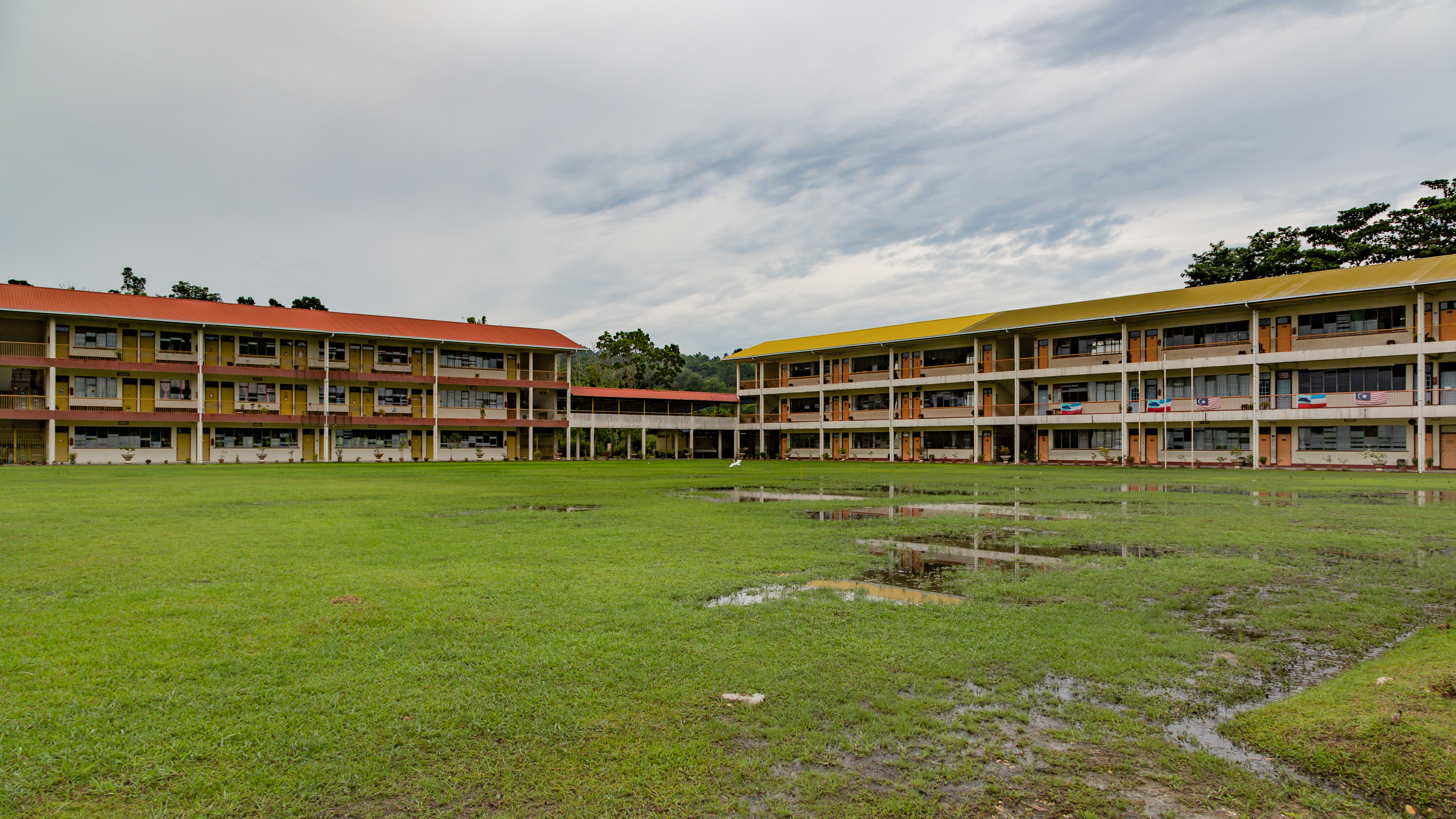 Sandakan, Sabah: SJK (C) Yuk Choi